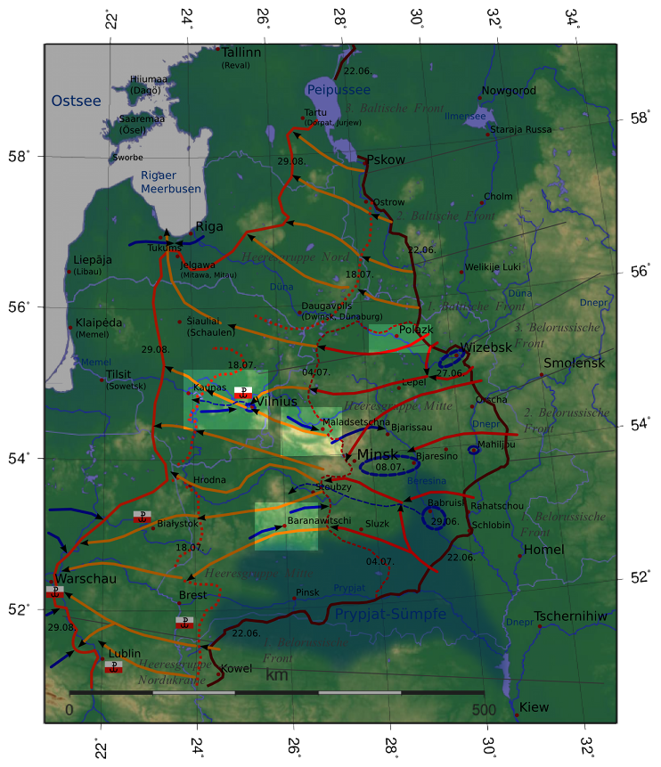 location of combat zone of Vilnius-Operation (7. july 1944 - 14. july 1944); german defense at Baranovichi and Molodetchna (1.july 1944 - 9. july 1944); Polotsk-Operation (1. July - 4. July 1944) in context of sovjet major offensive "Operation Bagration"